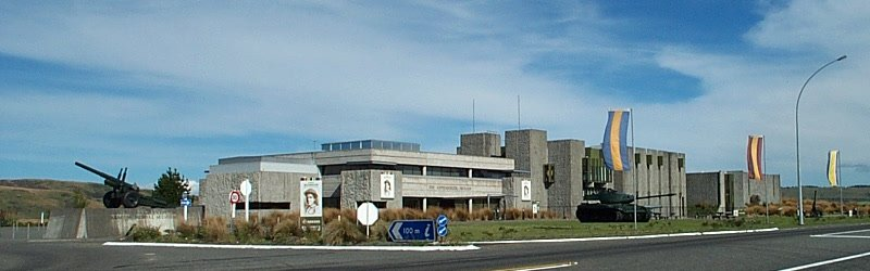 Photograph of exterior of the Queen Elizabeth II Army Memorial Museum, Waiouru, New Zealand.